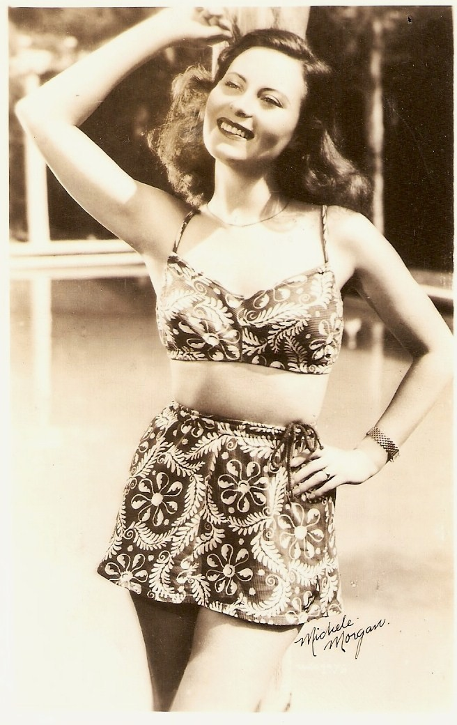 American postcard of Michèle Morgan [1] who appeared in Hollywood films during the World War II